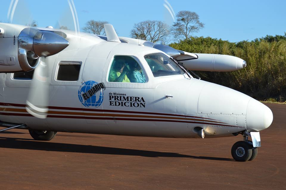 Mitsubishi MU landing in Oberá (Misiones Province, Argentina), airplane owned by Diario "Primera Edición" (newspaper company). Pilot: Gabriela Ceretti.